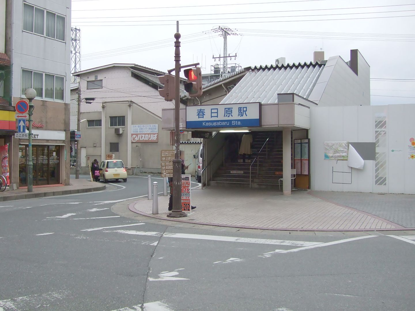 Nishitetsu Tenjin Omuta Line Kasugabaru Station (westside entrance)